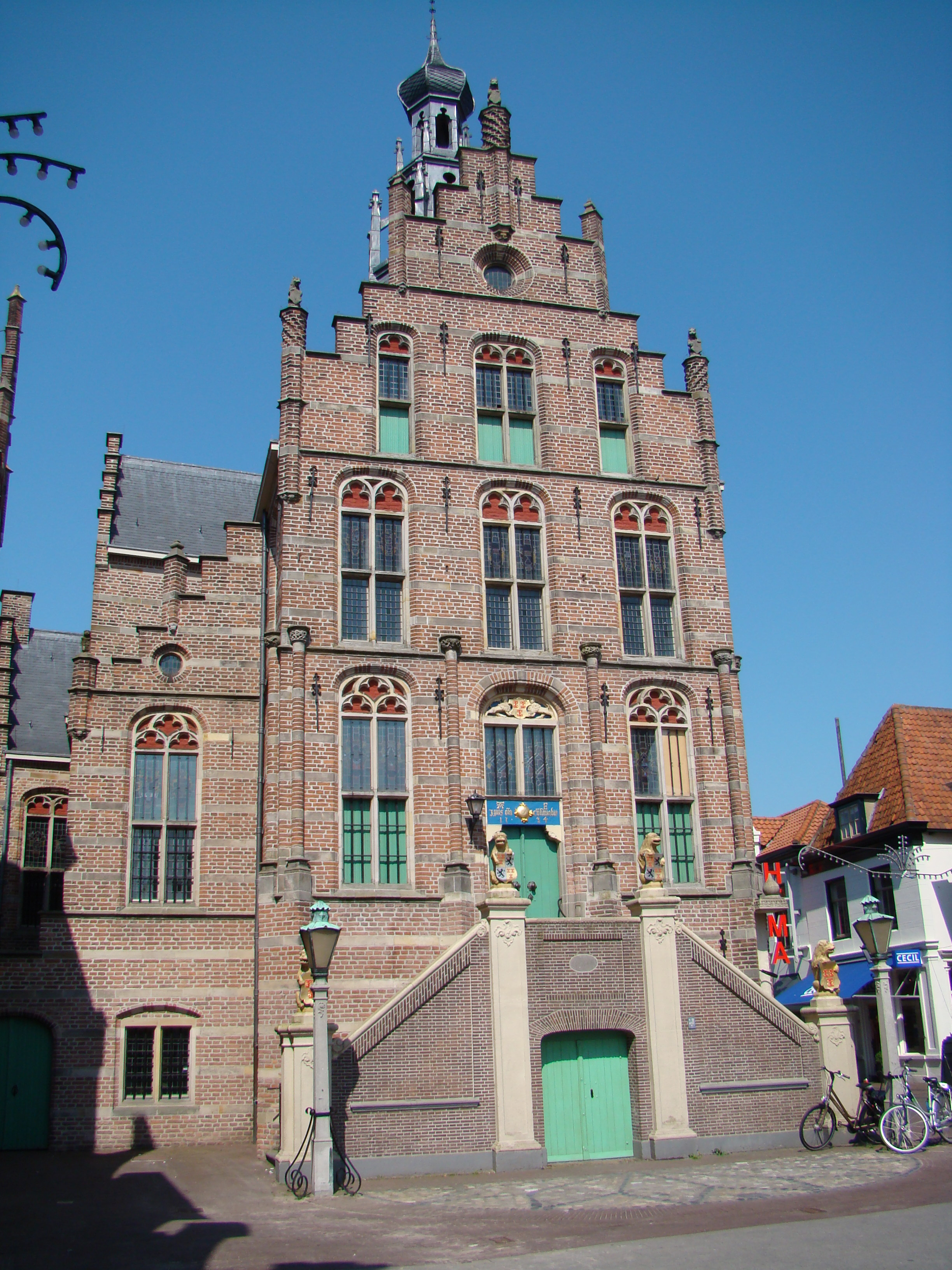 Cityhall Culemborg (Netherlands)